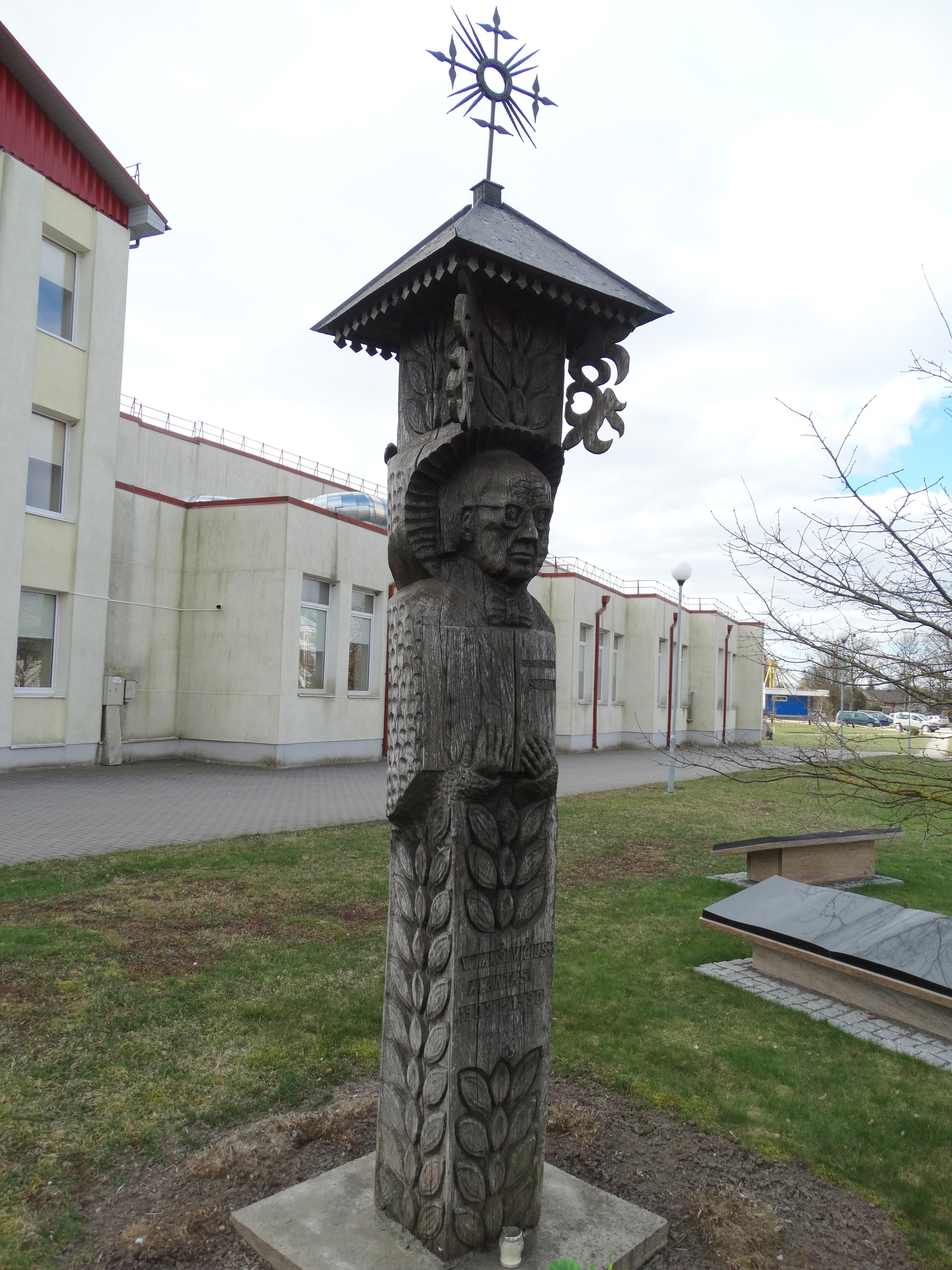 In memory of Vytautas Alantas, Sidabravas, Radviliškis District, Lithuania